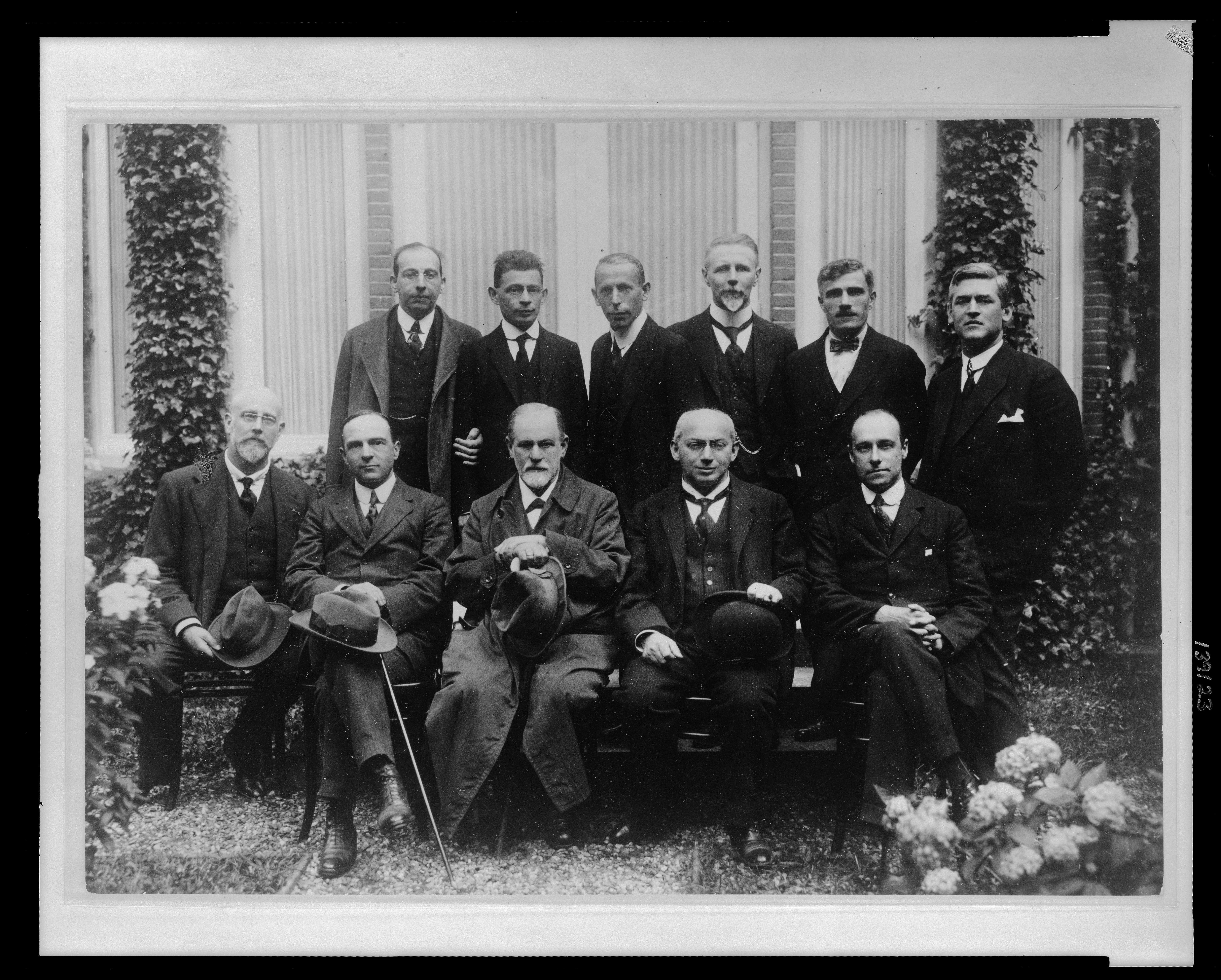 Title: Sigmund Freud with colleagues at the Congress at the Hague Abstract/medium: 1 photographic print.